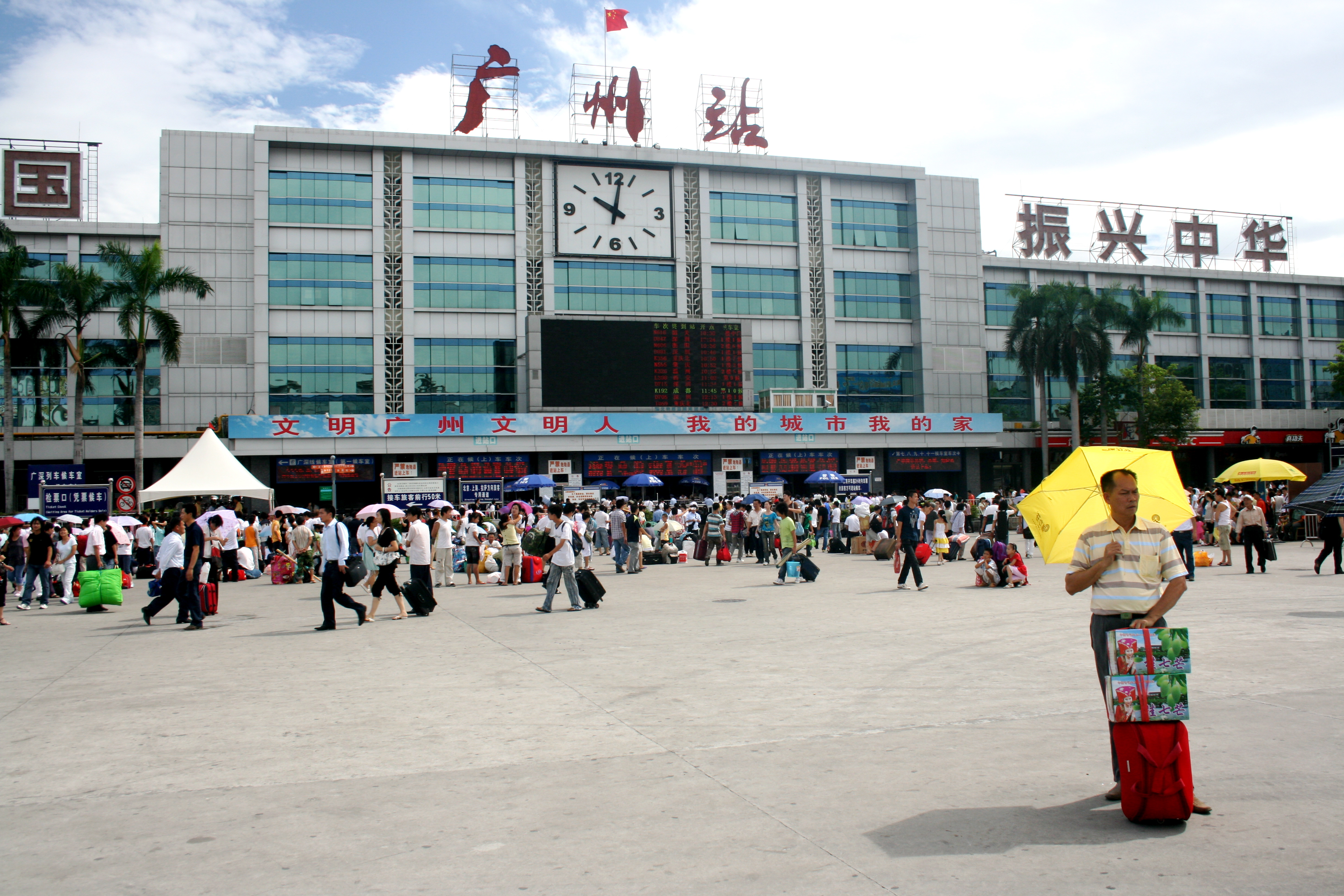 Man with a yellow umberella in front of a train station )/ uangzhou, China 廣州站